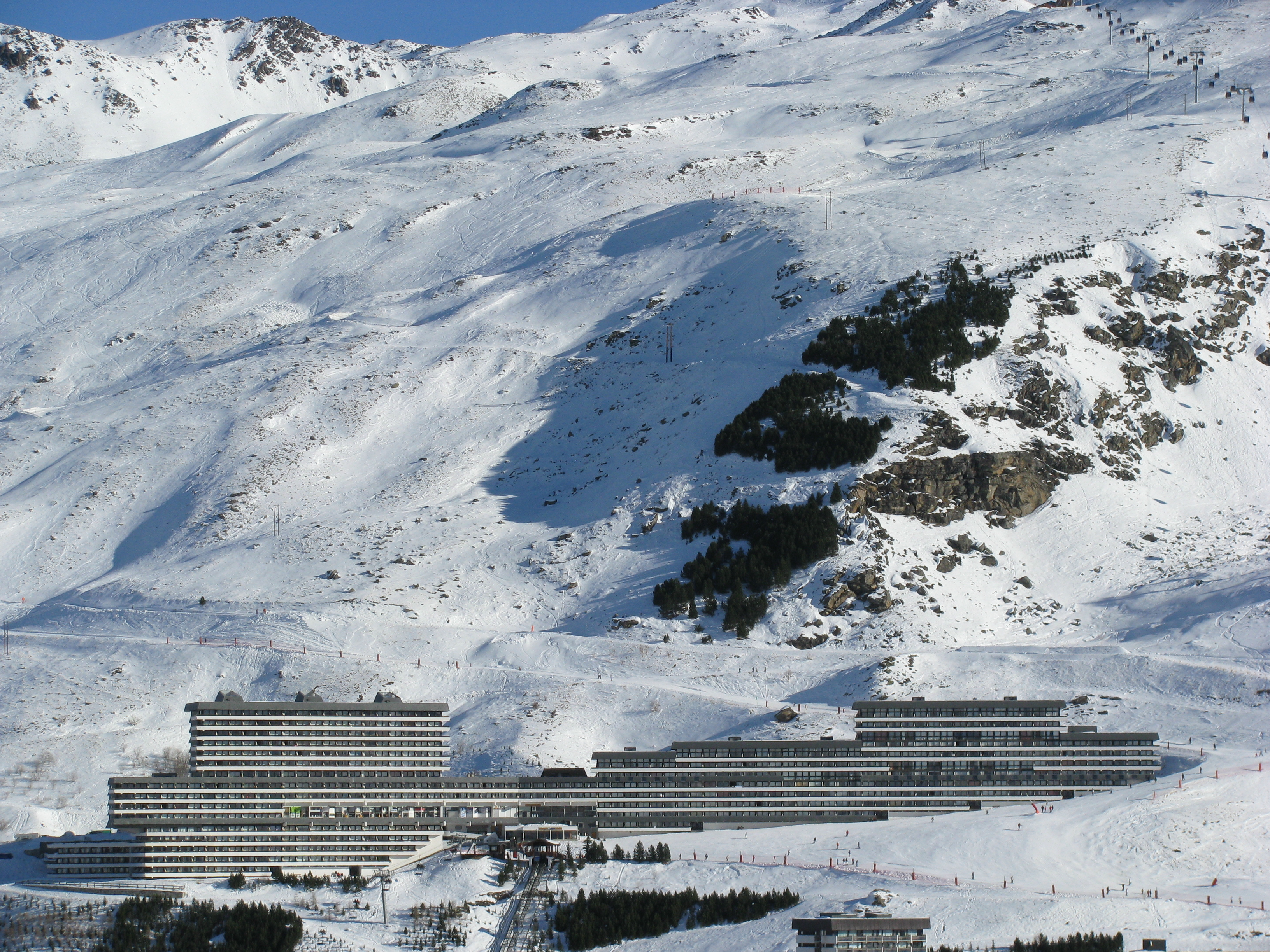 The building of Brelin, in Les Ménuires